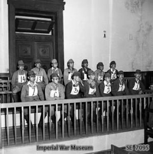 Japanese prisoners in the dock during the first war crimes trial to be held in Rangoon, Burma. These men were charged with the murder of 637 civilians in the village of Kalagon.